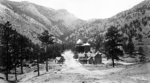 Cascade Canon in Cascade, Colorado. Hotel Ramona in the background. Taken 1889-1890 by William H. Walker.